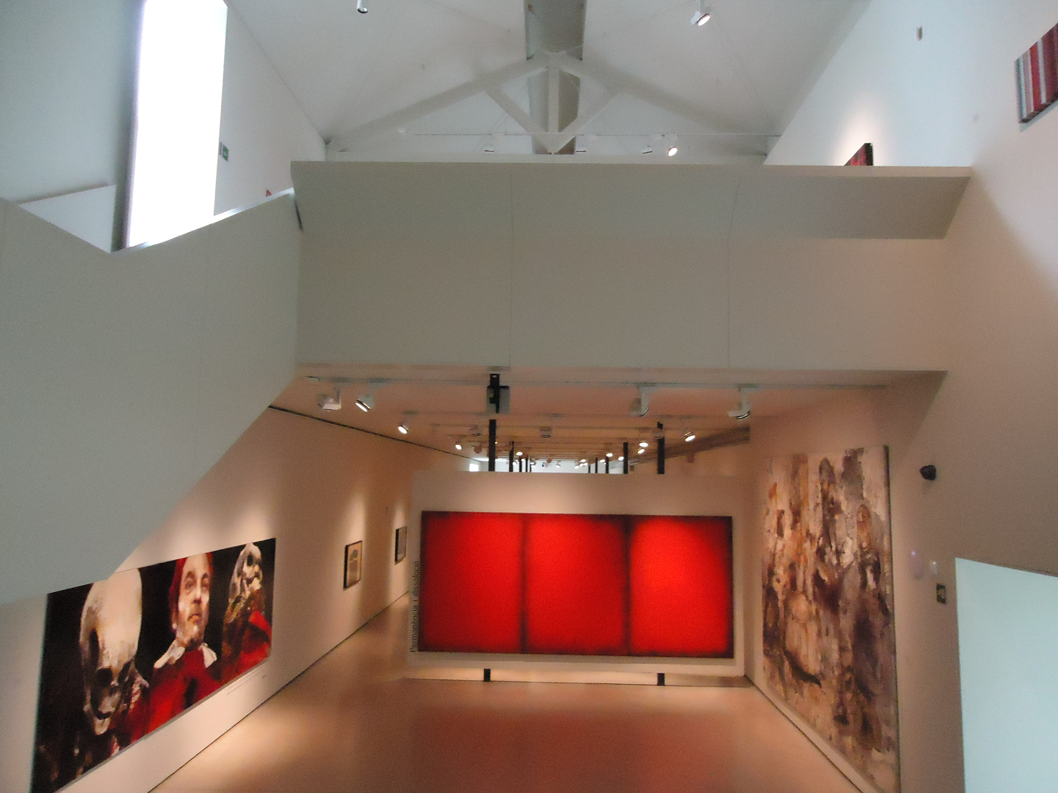 Image of the first room (Can Framis)